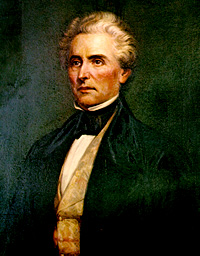 Linn Boyd, Speaker of the House of Representatives. Oil painting on canvas by Stanly Middleton, 1911, From the collection of U.S. House of Representatives.